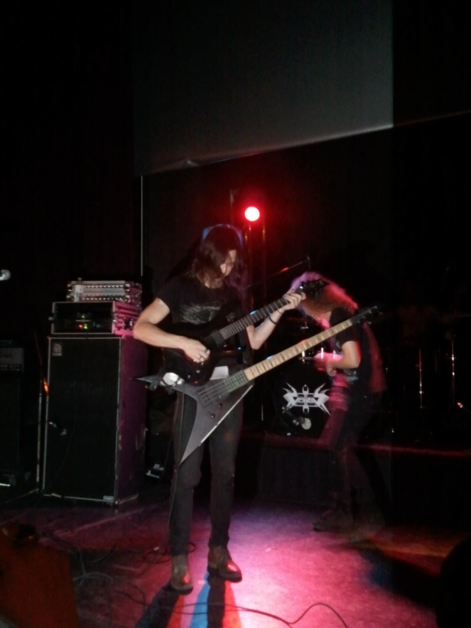 Vektor playing in Hamilton, Ontario, 2012